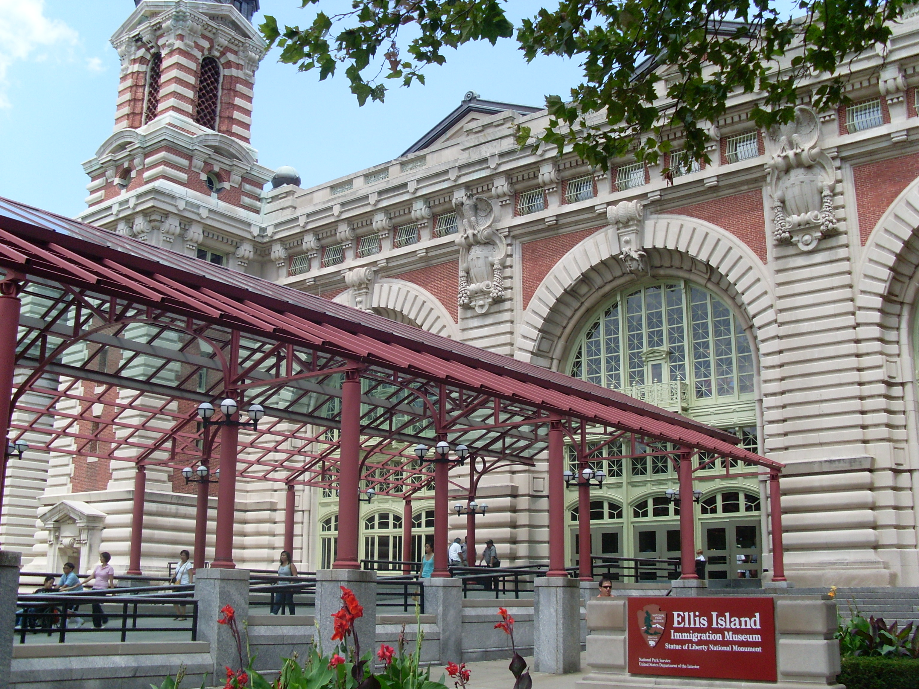 Entrance of the Ellis Island Immigration Museum.